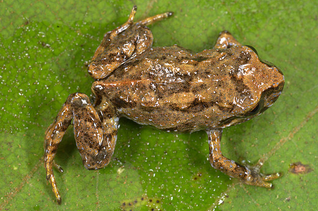 Bryophryne gymnotis